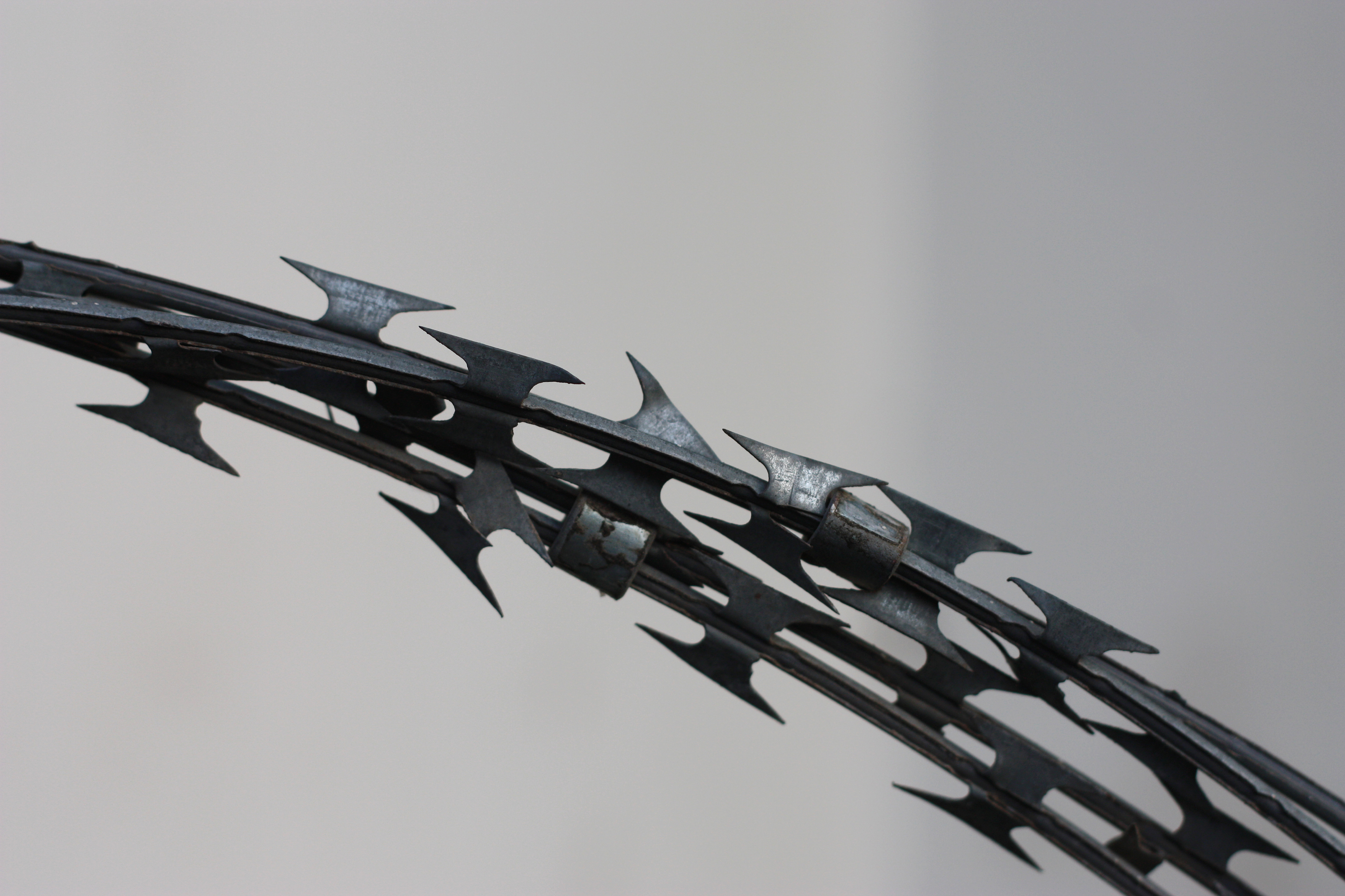 Barbed tape in a street of Beirut.